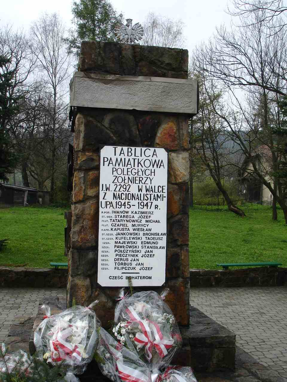 Tomb of polish soldiers killed by UPA in Ustrzyki Dolne